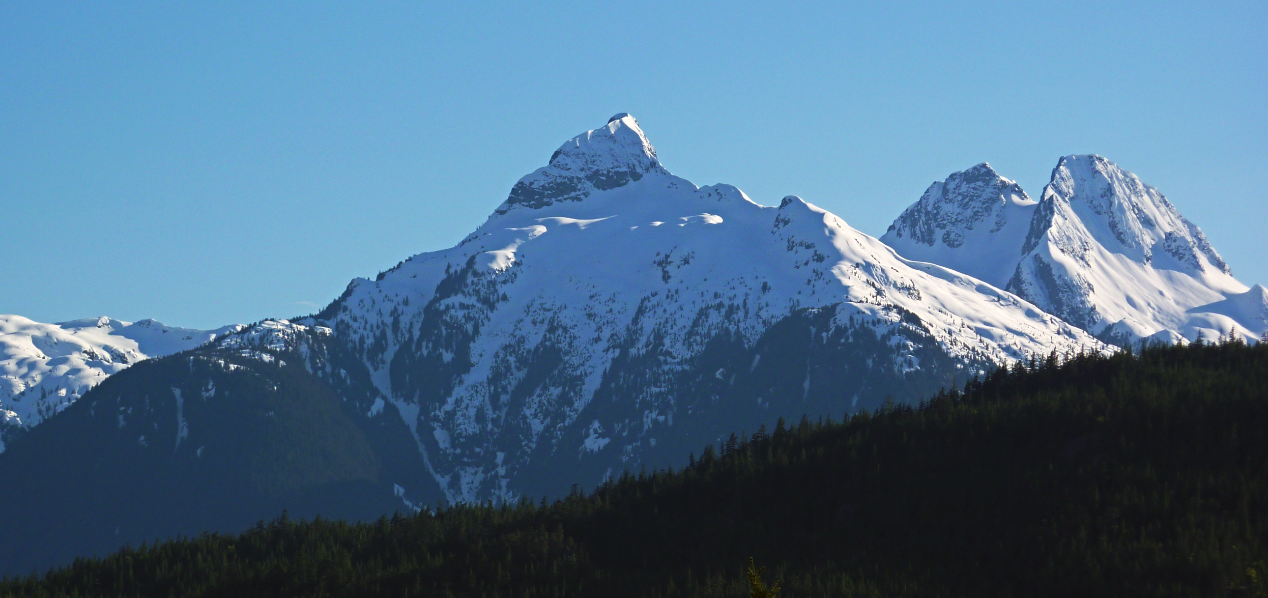 Omega Mountain in British Columbia, Canada